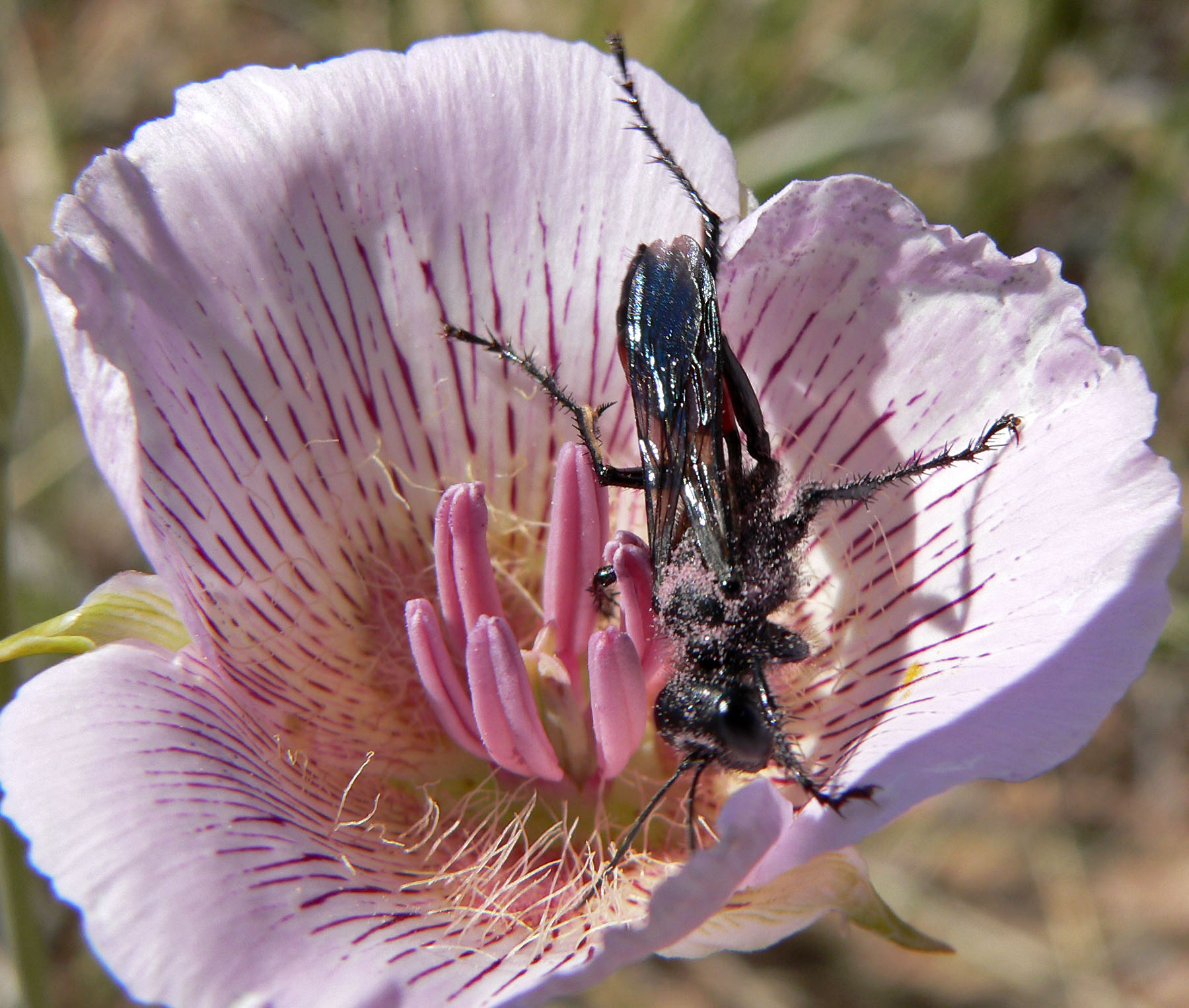 Photo of Calochortus striatus (alkali Mariposa lily), with wasp covered in pink pollen from another individual nearby, in Calico Basin west of Las Vegas, Nevada